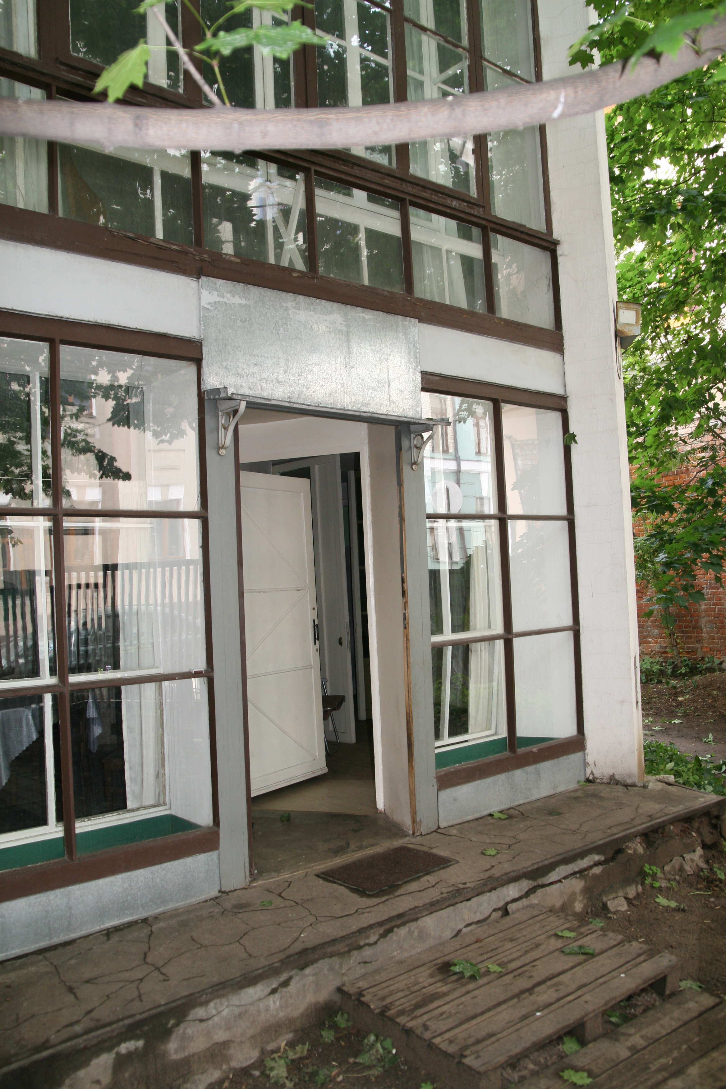 Melnikov House